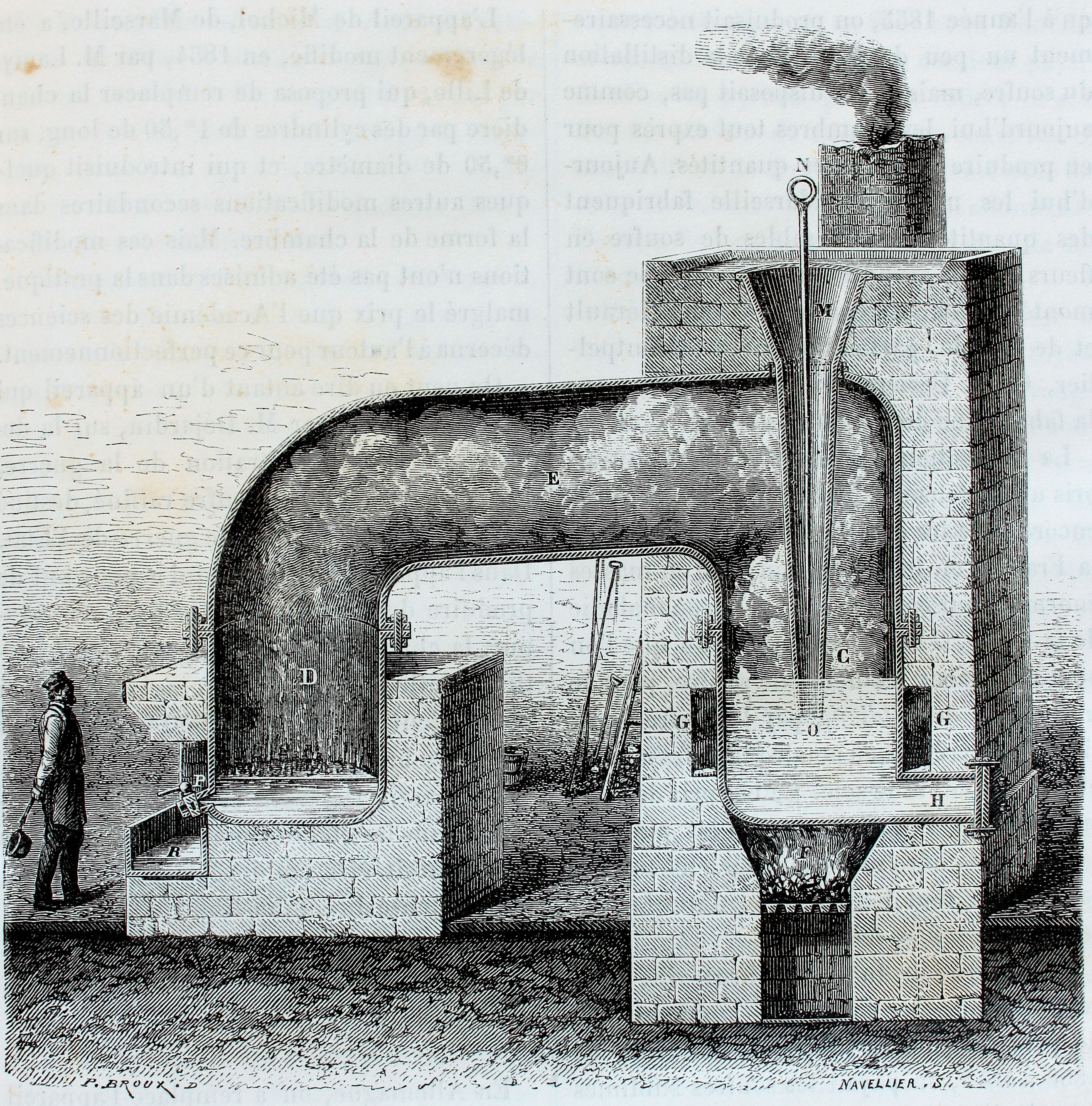 "German apparatus for distillling sulfur"